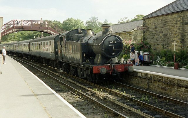 Arrival at Goathland Station